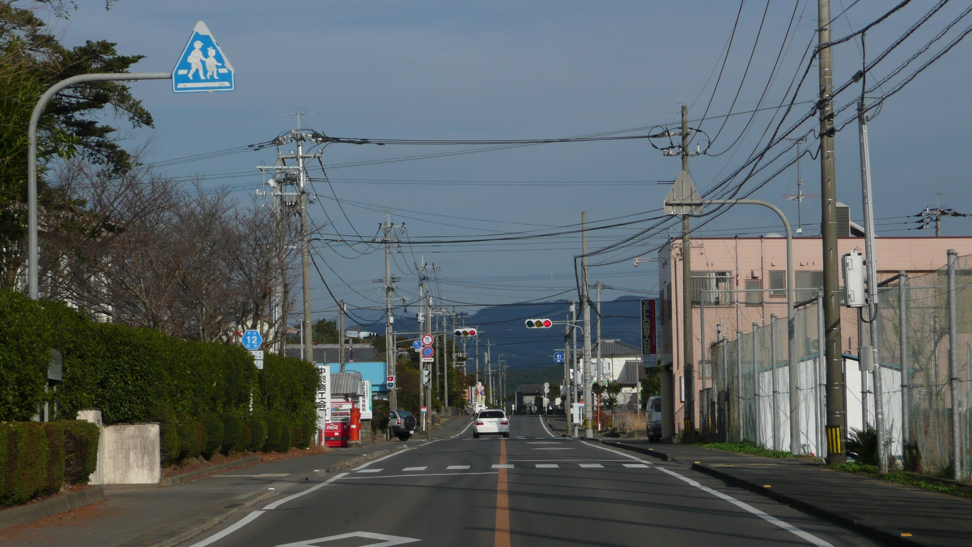 Miyazaki Prefectural Road No.12 (Umekitacho, Miyakonojo, Miyazaki, Japan)